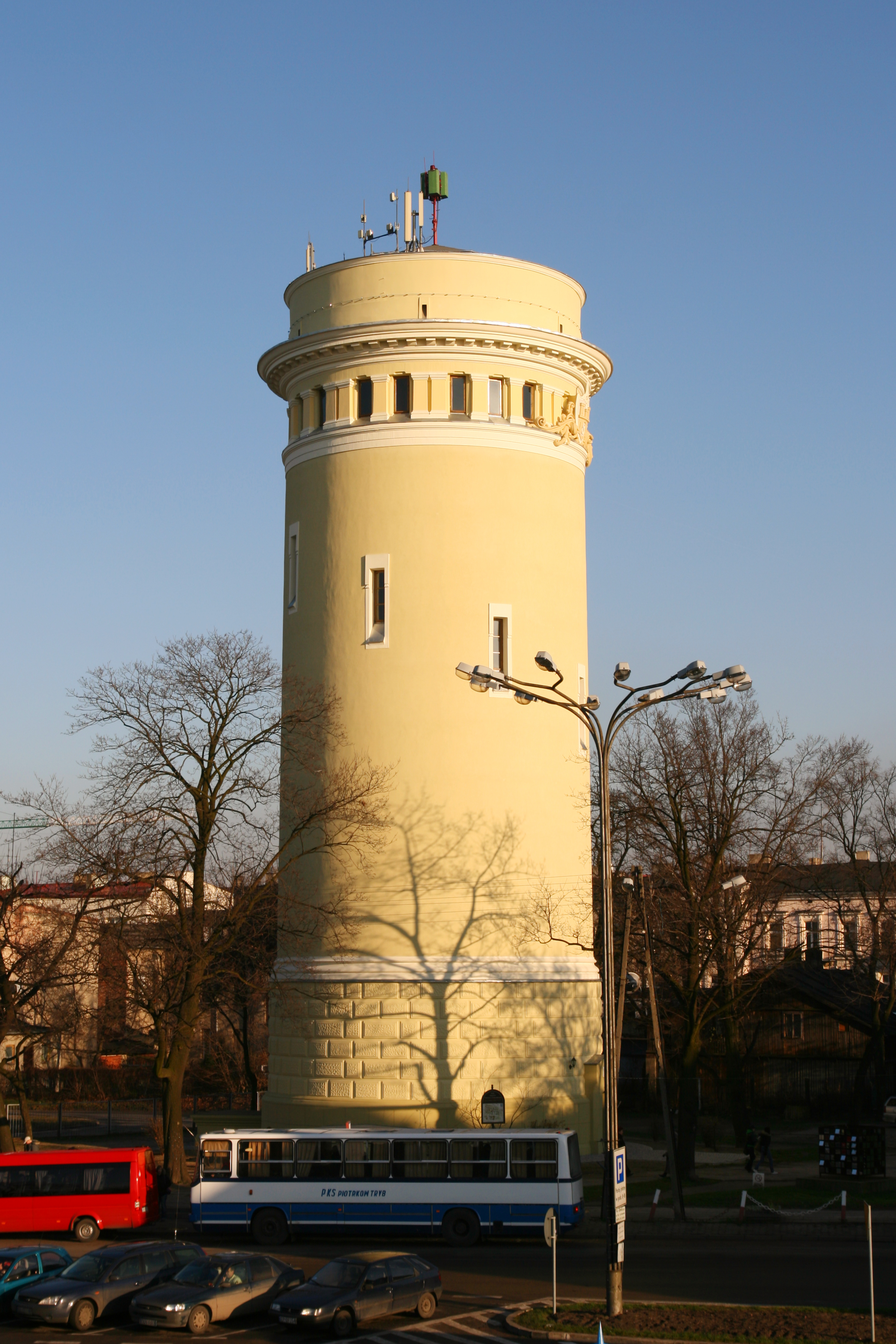 Water tower in Piotrków Trybunalski (Poland).